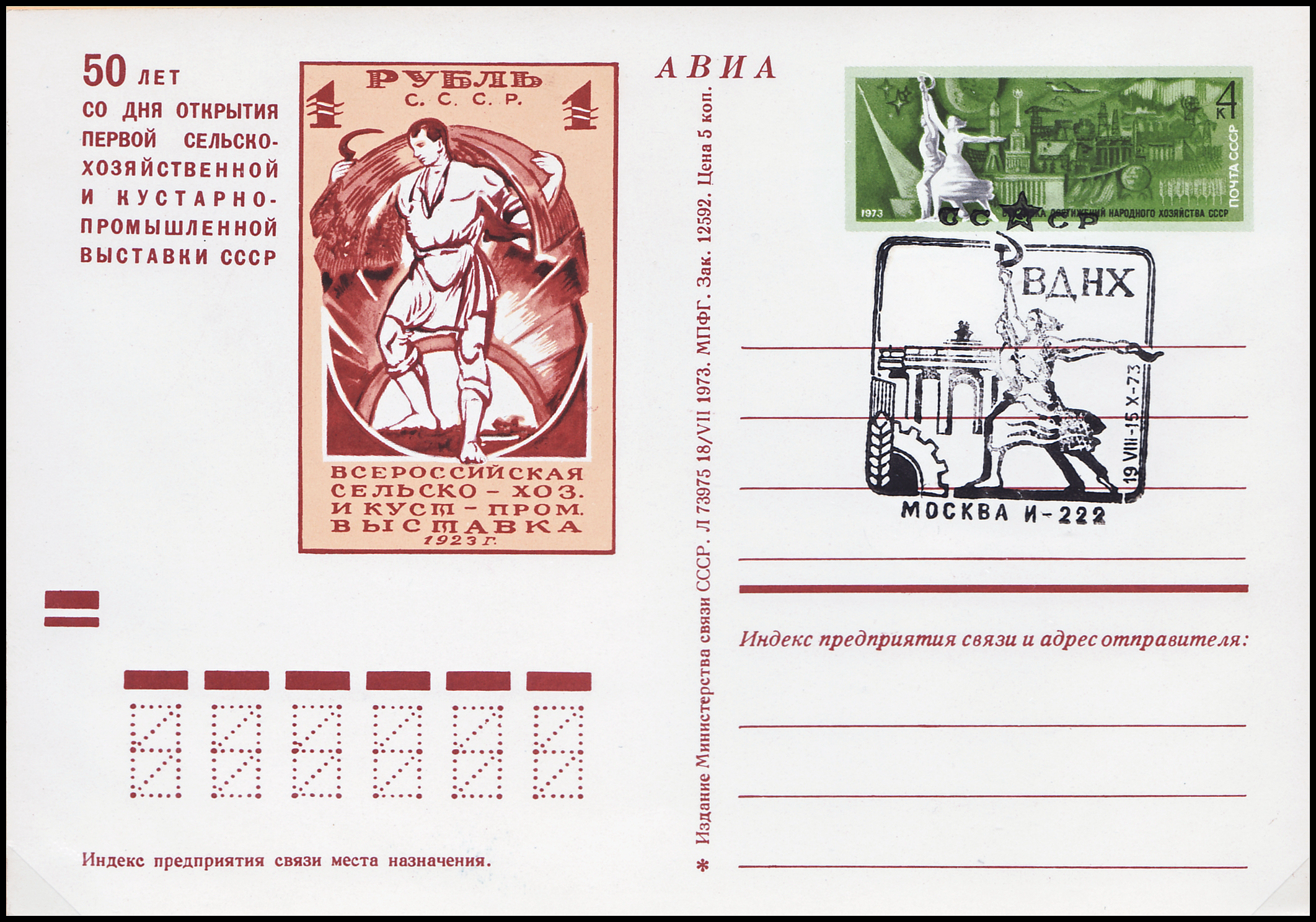 USSR, 1973. Postal card with commemorative stamp. "The 50th Anniversary of the First All-Russian agricultural and handicraft industrial exhibition. Anniversary Exhibition at VDNKh" (Catalogue CPA №11). Stamp: Monument "Worker and Kolkhoz Woman"; monument "Space"; industrial buildings. Illustration: The first postage stamp of the USSR "Reaper." Painter A. Aksamit. Special cancellations: 19.08 - 15.10.1973, Moscow, post office I-222